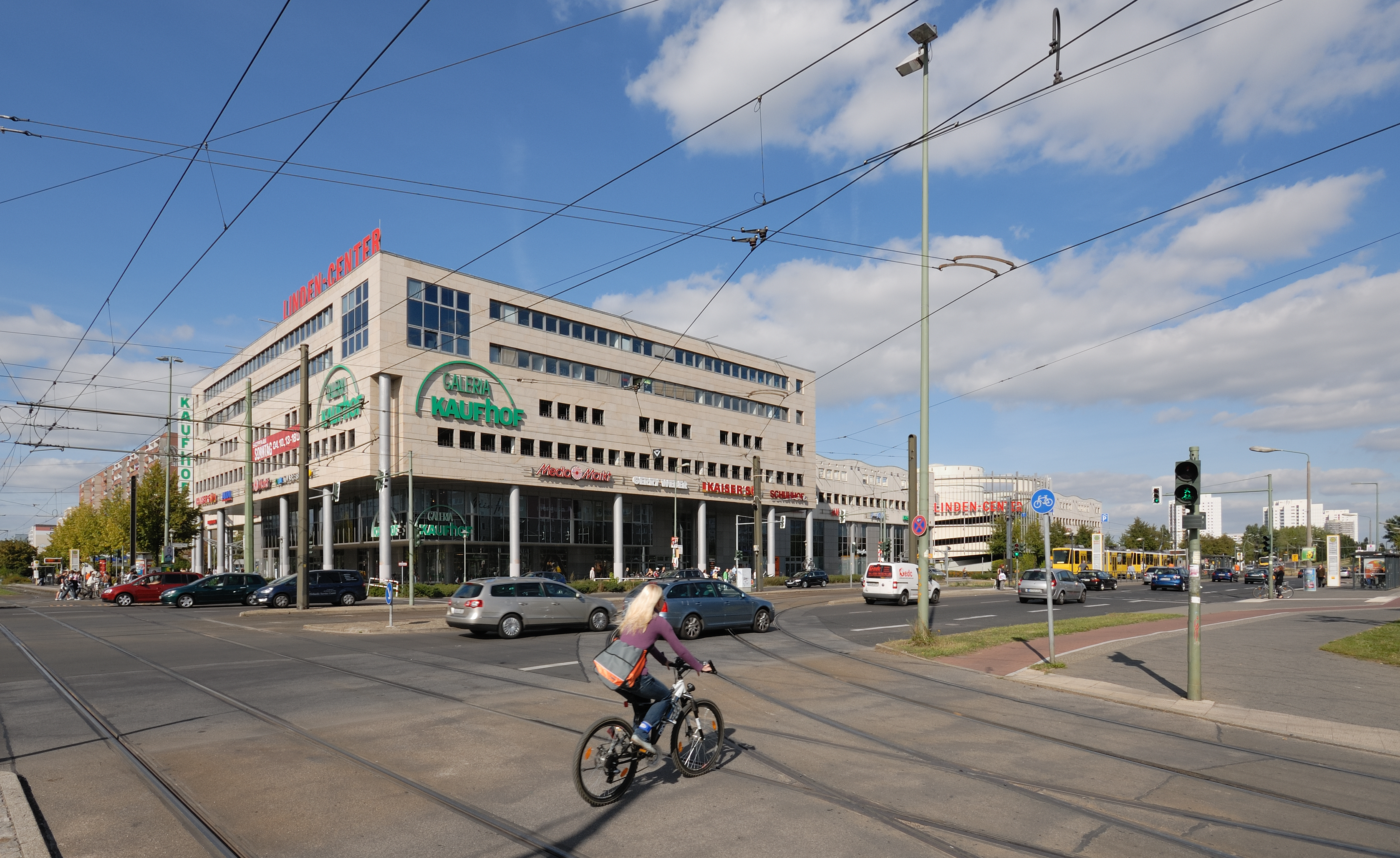 Shopping mall Linden-Center at Prerower Platz, Berlin-Neu-Hohenschönhausen.